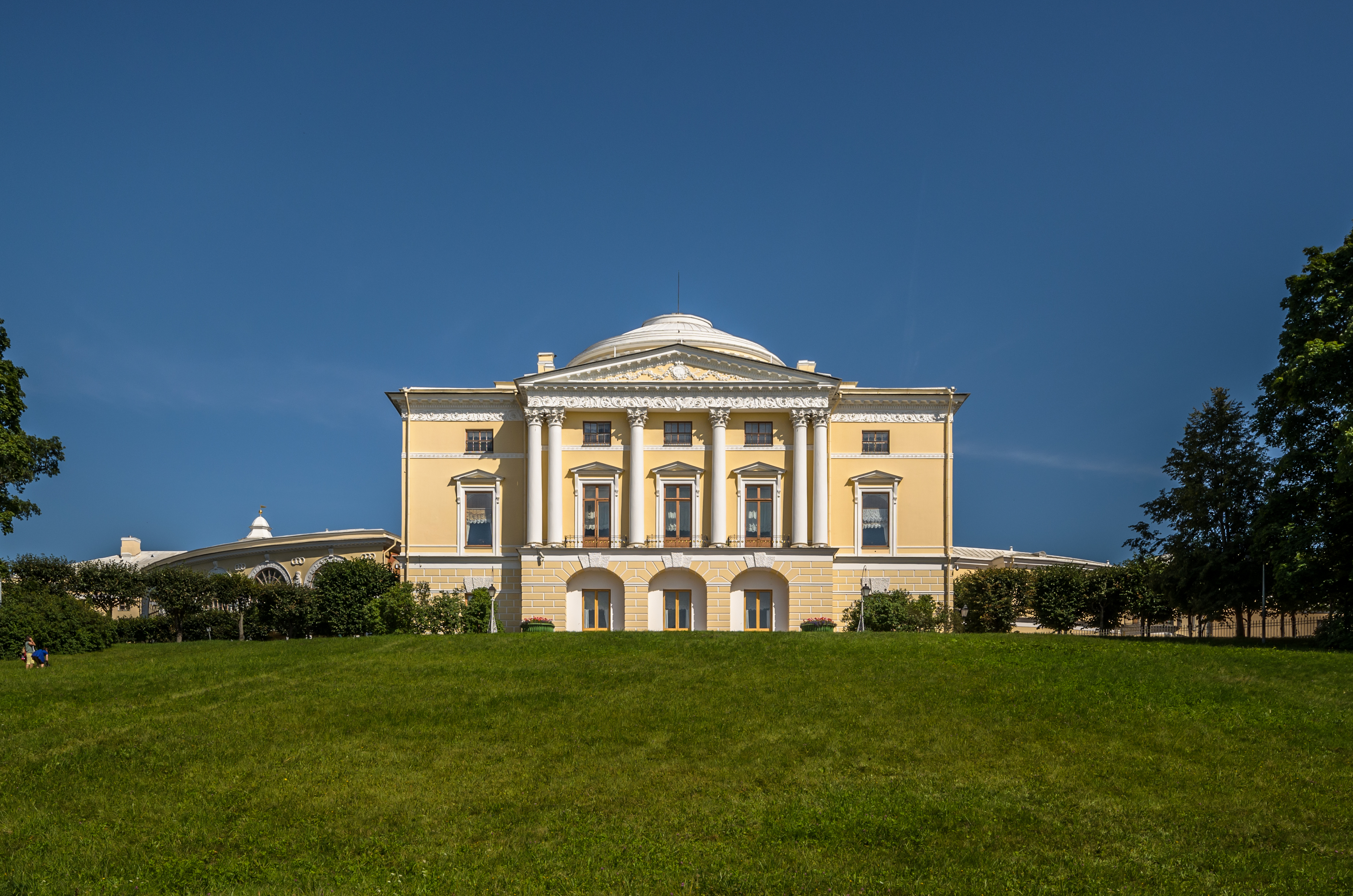 Pavlovsky Palace